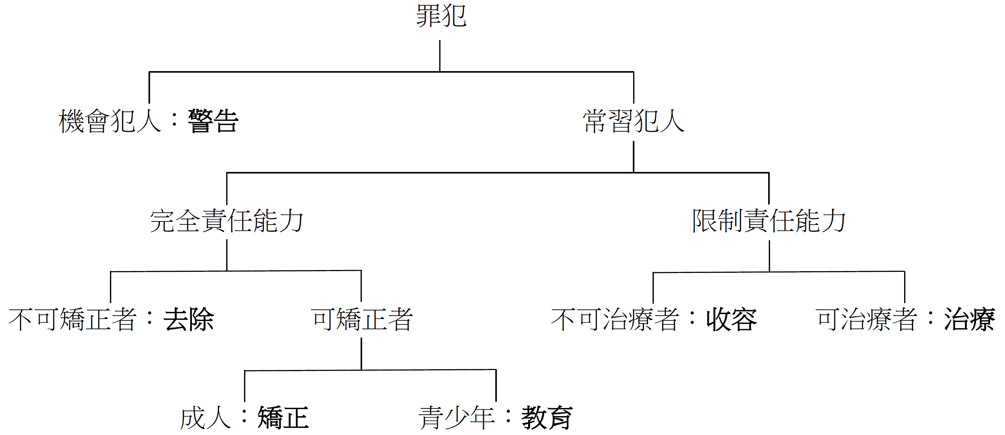 Diagram of sentence